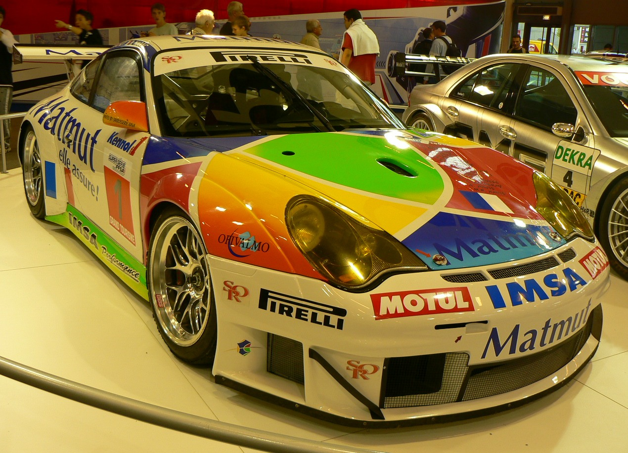 Porsche 911 GT3 RSR (996) race car at the 2006 Paris Motor Show